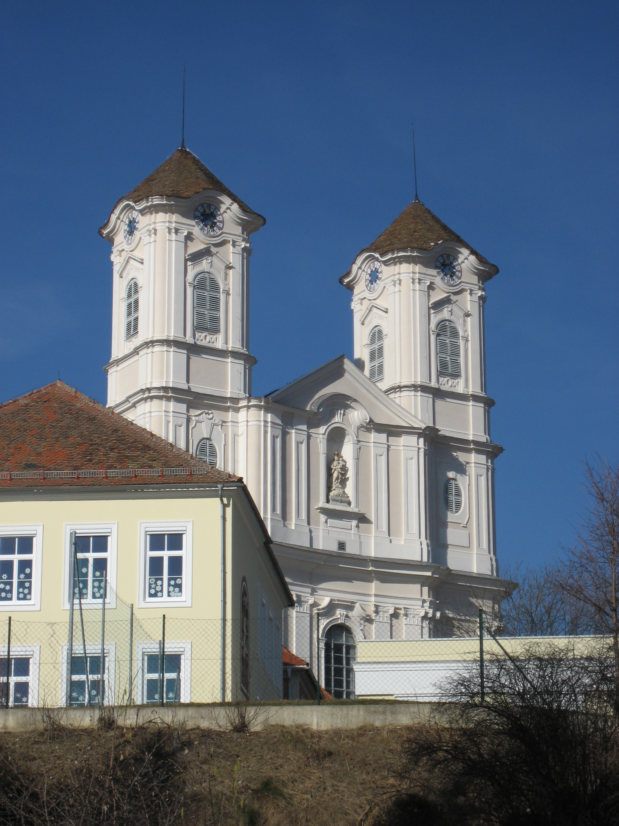 Weizbergkirche in Weiz, Styria, Austria, Europe